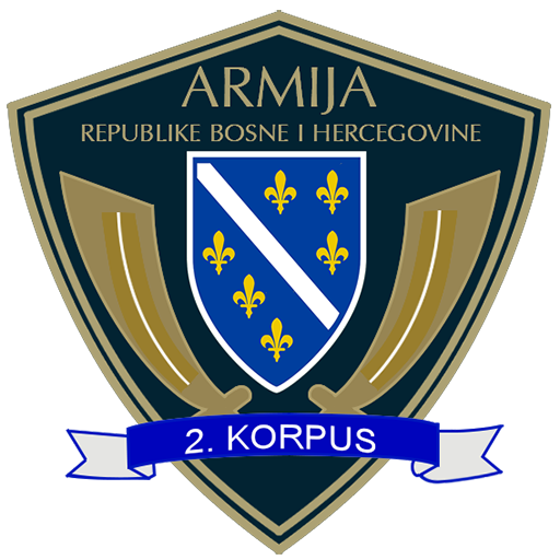 Drugii korpus armije republike Bosne i Hercegovine